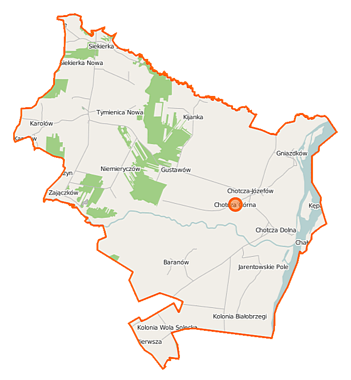 Map of Gmina Chotcza, Poland This map of Chotcza (gmina) was created from OpenStreetMap project data, collected by the community. This map may be incomplete, and may contain errors. Don't rely solely on it for navigation. Border coordinates51.308721.6328←↕→21.830551.1742